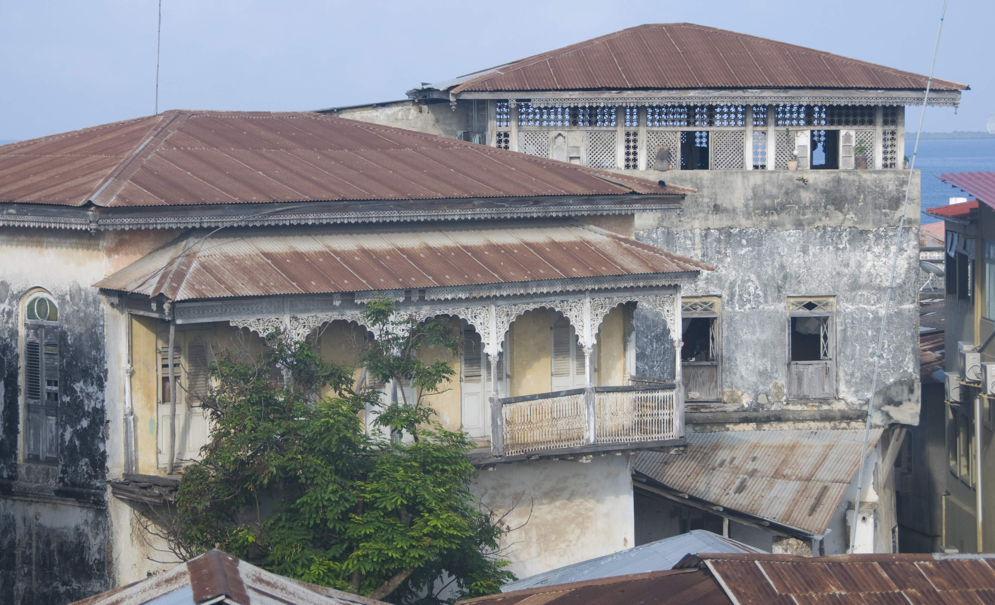 House of Tippu tip a Zanzibari Merchant and Slave Trader